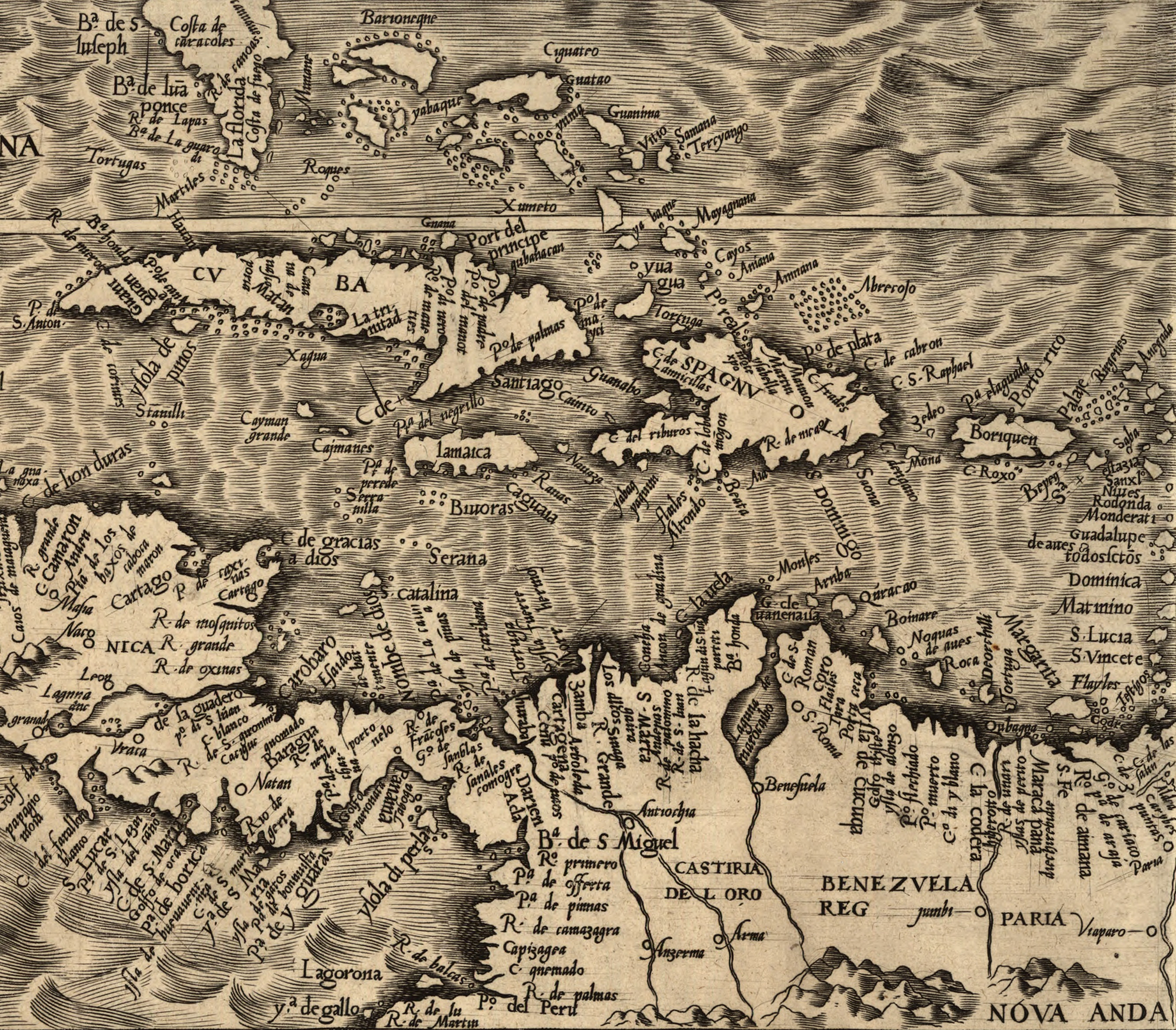 Detail of the map Americae 1562 (the Americas), Diego Gutiérrez, Hieronymus Cock (engraver), Antwerp workshop, map of southern Florida, Cuba, Spagnola, Benezuela to Lesser-Antilles